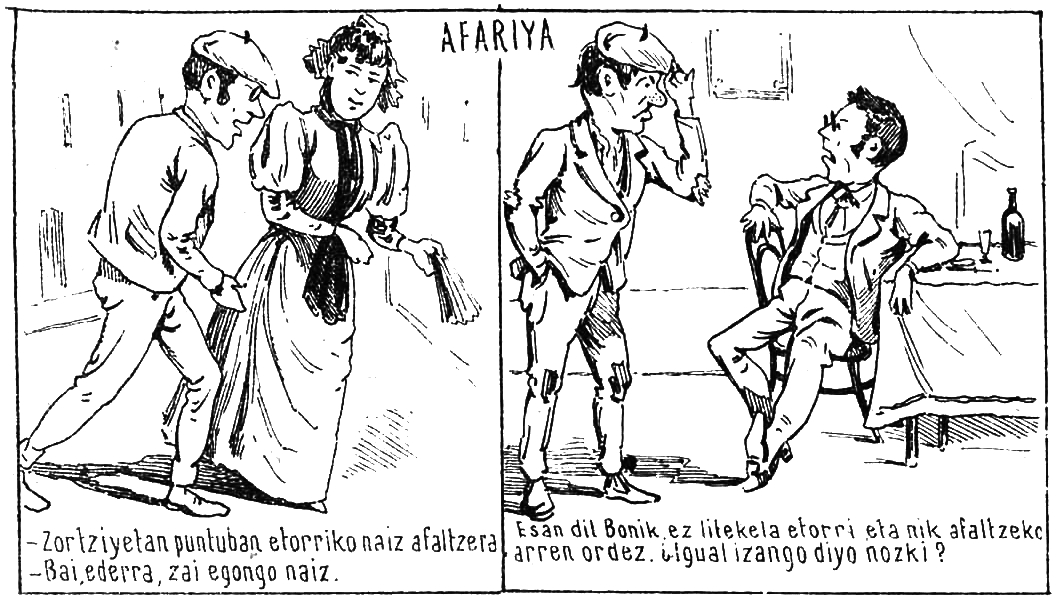 Cartoon by Biktoriano Iraola